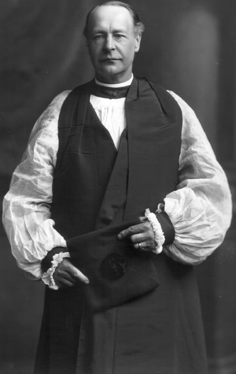 Ernest Roland Wilberforce, by Lafayette Ltd., 179 New Bond Street, London